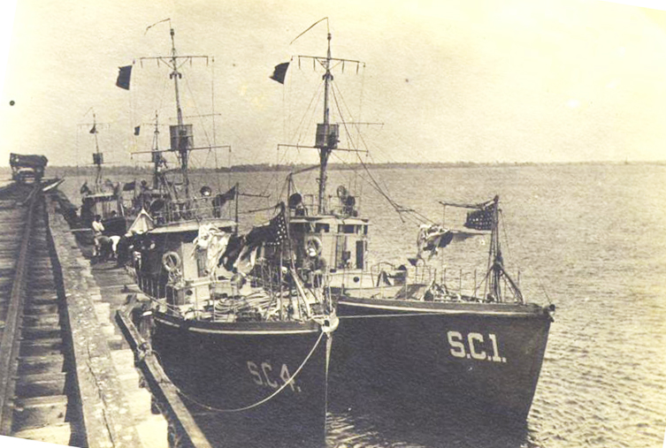 The United States Navy submarine chasers (left) and at Charleston, South Carolina.